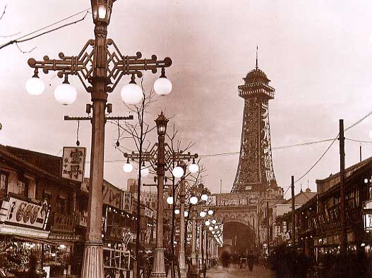 The Original Tūtenkaku and Shinsekai